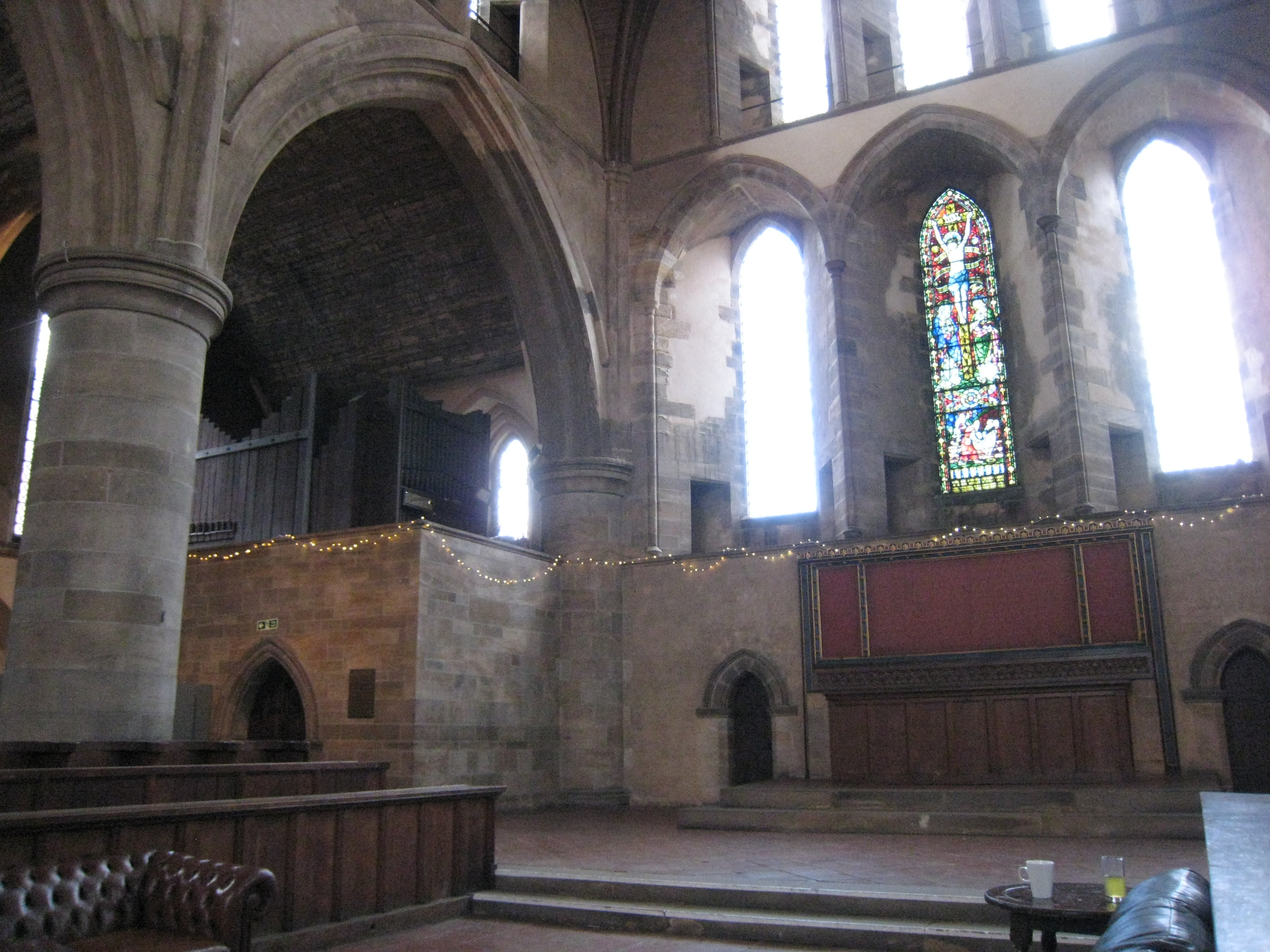 Interior of Left Bank (arts centre), Cardigan Road, Leeds. The former Church of St Margaret of Antioch.